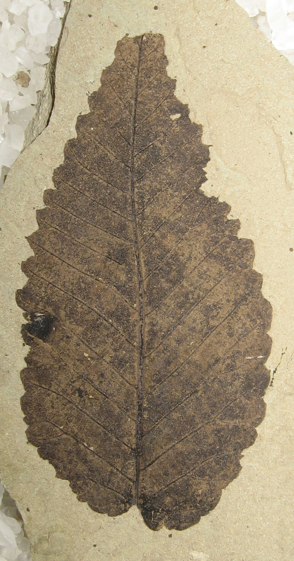 A single leaf, ~6cm tall, from the extinct Ulmus okanaganensis. 49 million years old, Klondike Mountain Formation, Republic, Washington. Stonerose Interpretive Center Collections# SR 92-04-06